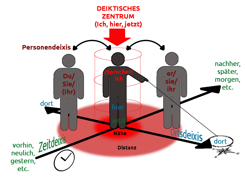 German version of a scheme showing three kinds of deixis (person deixis, space deixis, time deixis), as well as the relation of proximity and distance of the deictic center.